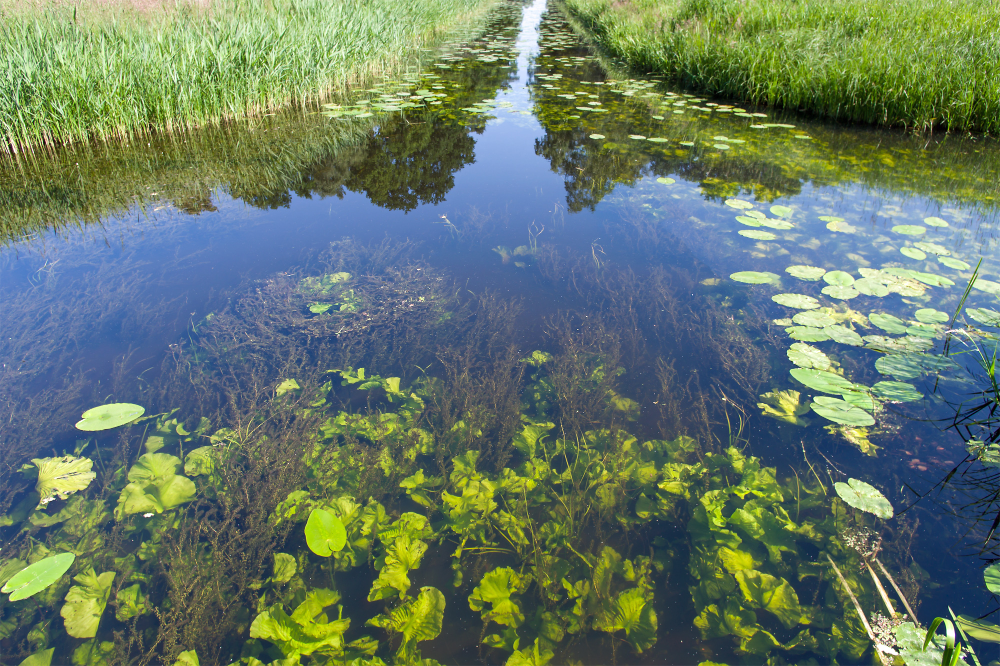 Crossing of the ditches/canals "Ranzauer Kanal" and "Kupernitzkanal", district Lüchow-Dannenberg, north-eastern Lower Saxony, Germany.